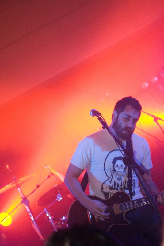 Elemeno P performing at the Civic in Christchurch on 11 July 2008.